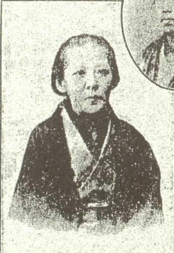 Narasaki Ryō (Nishimura Turu)